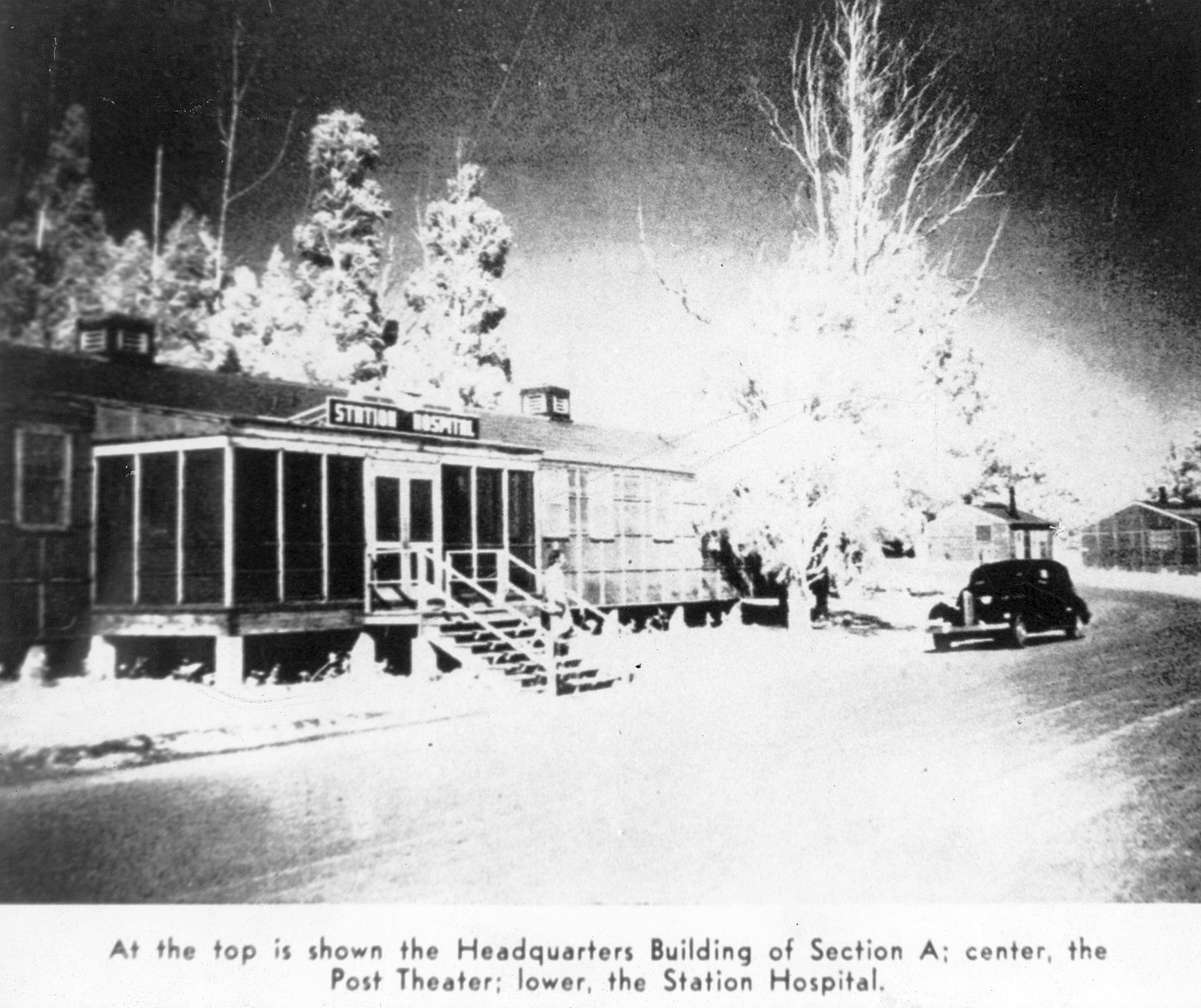 Exterior of original Station Hospital at Fairfield-Suisun Army Air Field during WWII